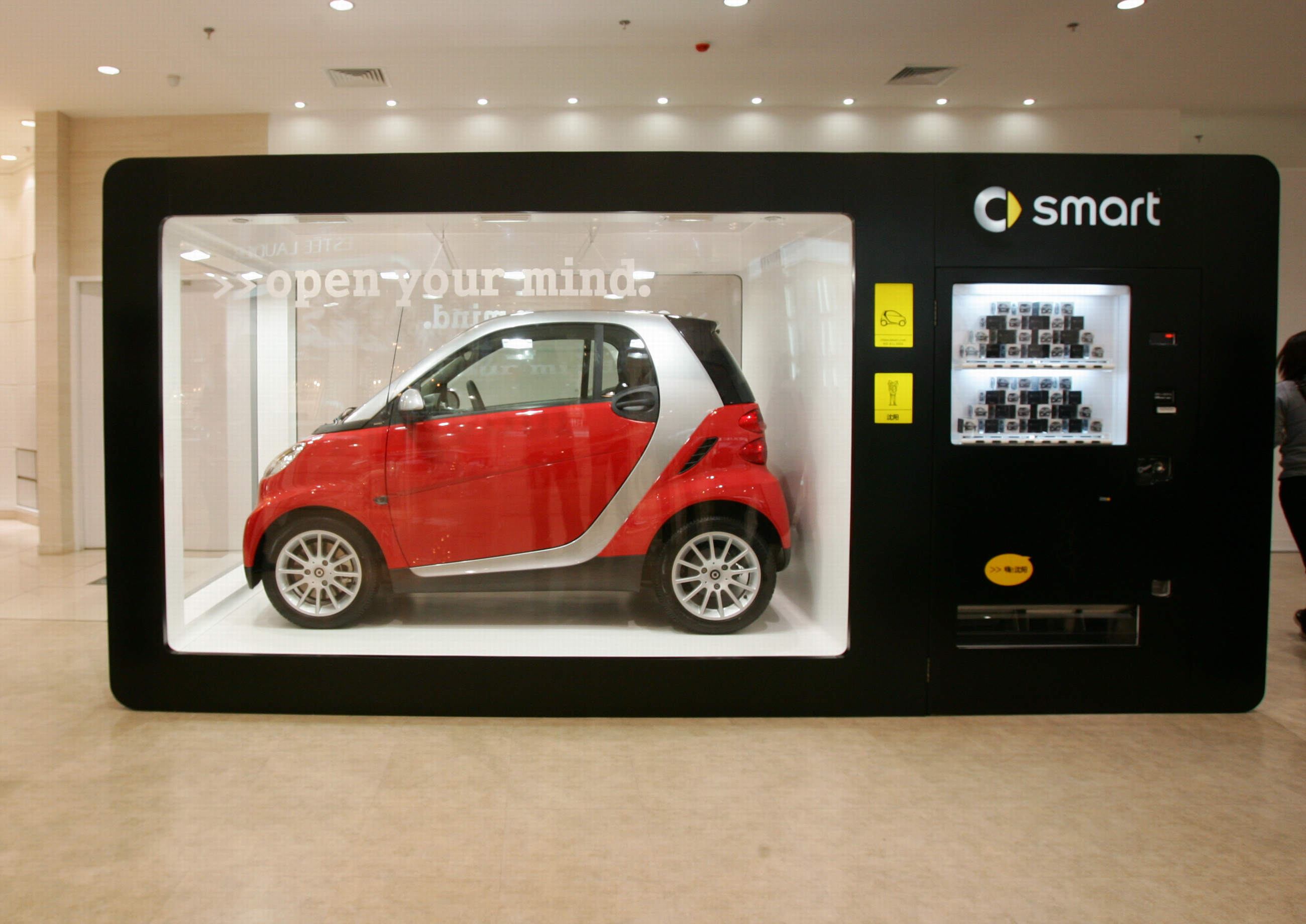 Smart fortwo vending machine in Shenyang, China